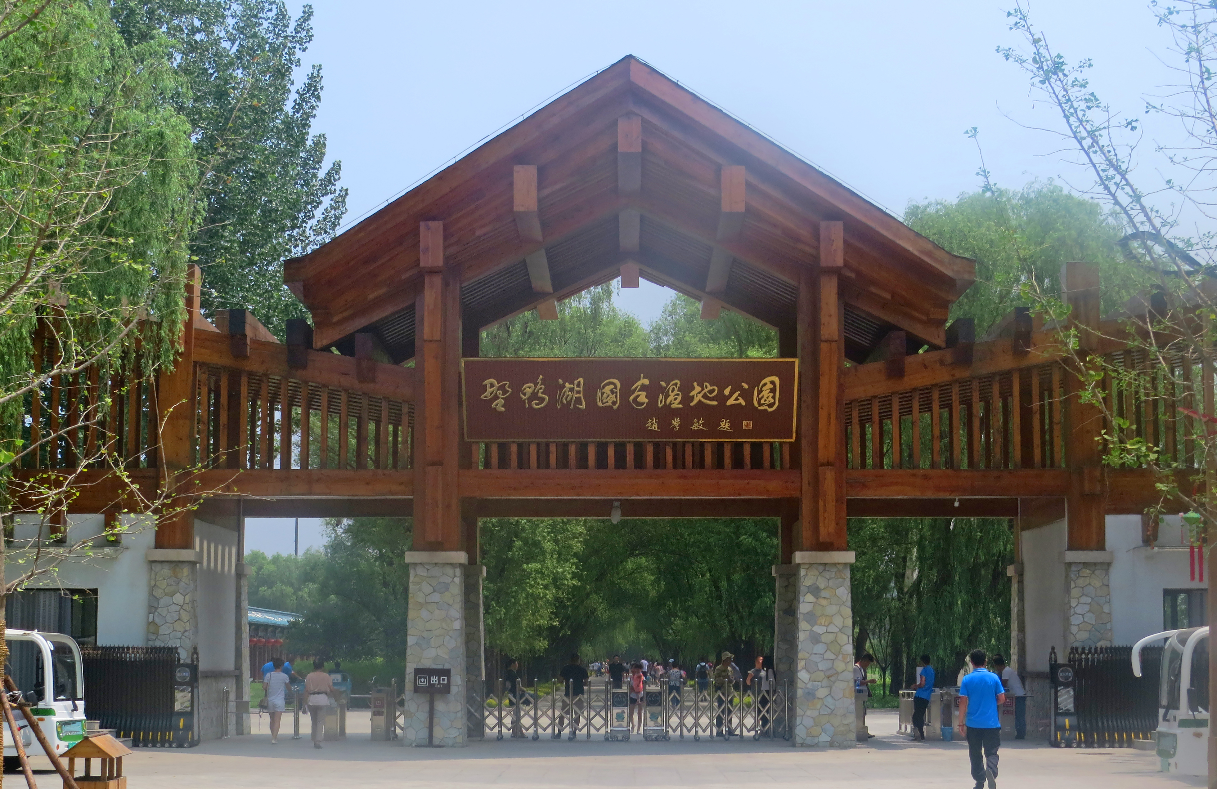 Literally "Lake of Wild Ducks".